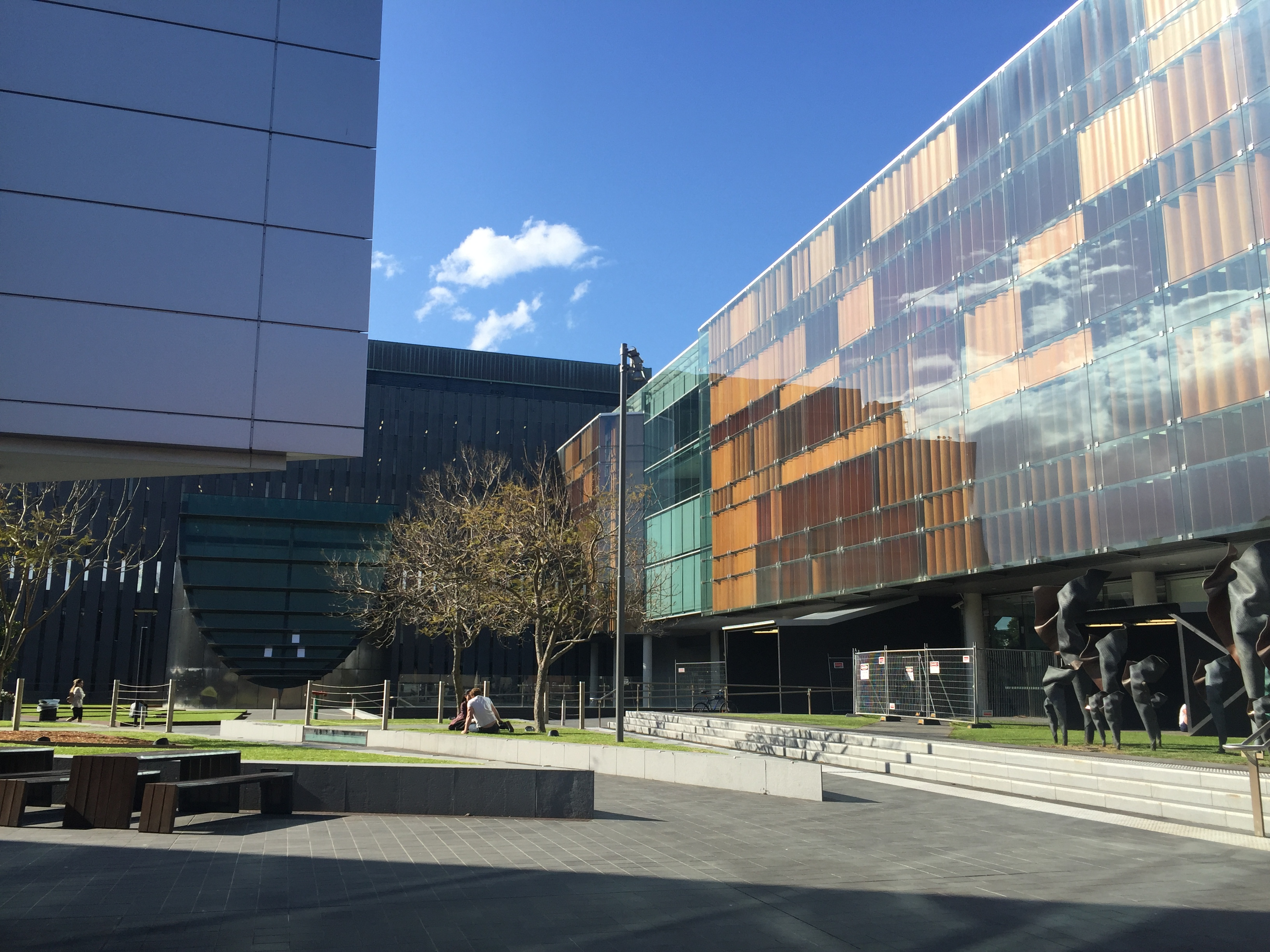 View of the New Law School of the University of Sydney.